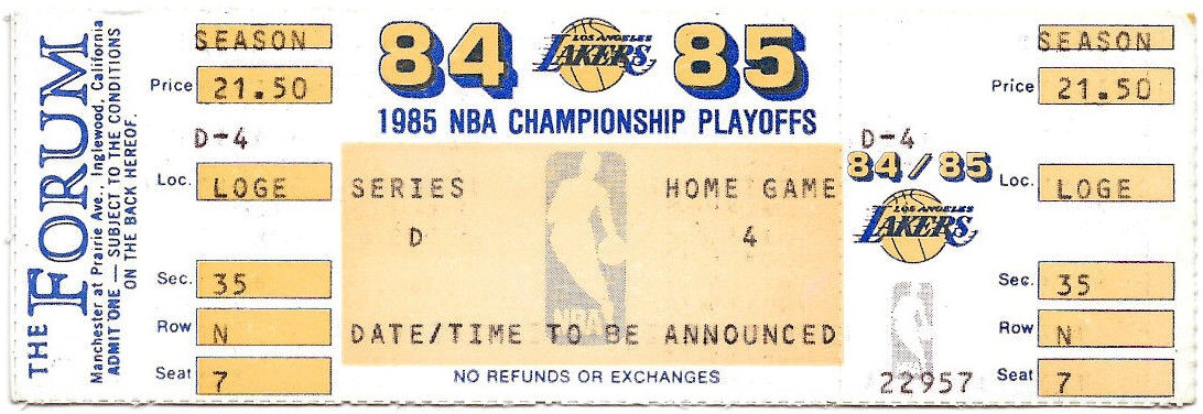 A ticket for Game 2 of the 1985 Western Conference Semifinals featuring the Portland Trail Blazers versus the Los Angeles Lakers at the Forum on April 30, 1985. The Lakers defeated the Trailblazers 134-118 in Game 2 and eventually won the series 4-1.